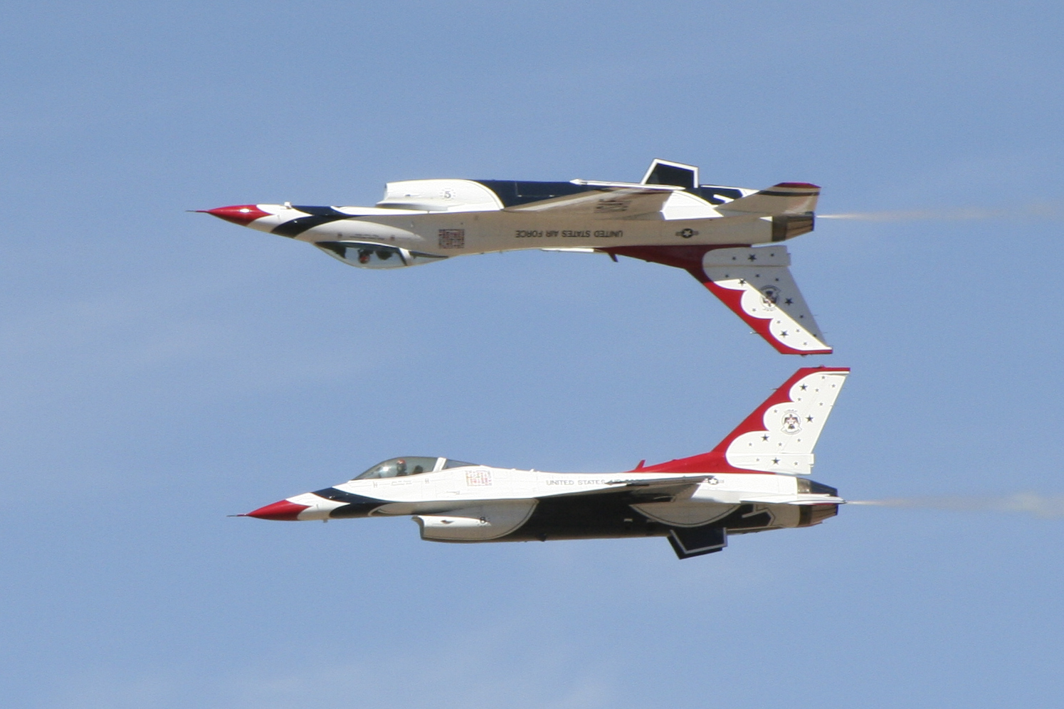 Thunderbirds at the 2006 Reno Air Show & Races